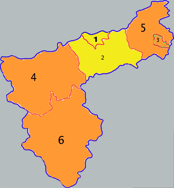 Municipalities of Sanmenxia city, China